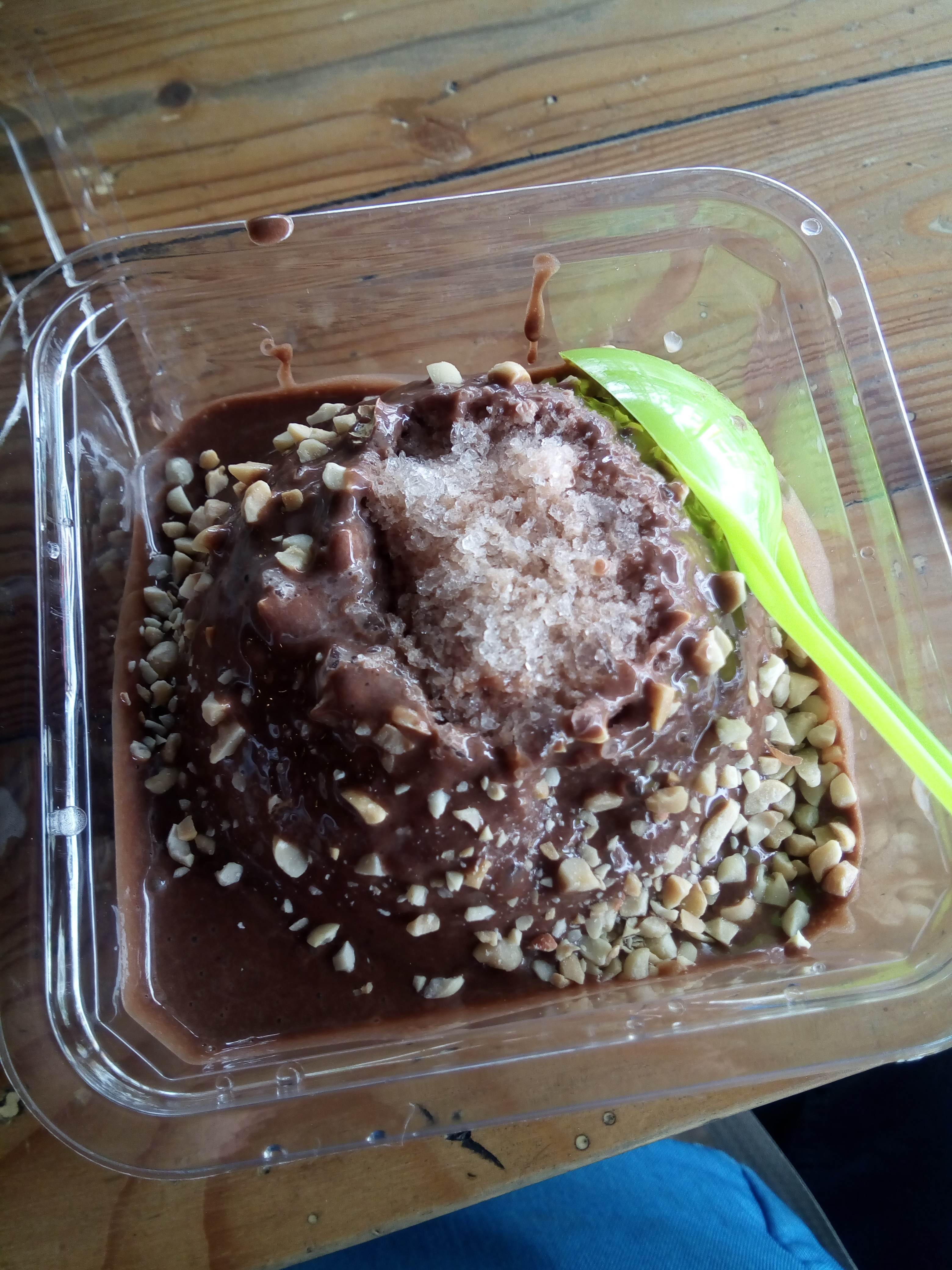 Es Kepal Milo in Jakarta, Indonesia.